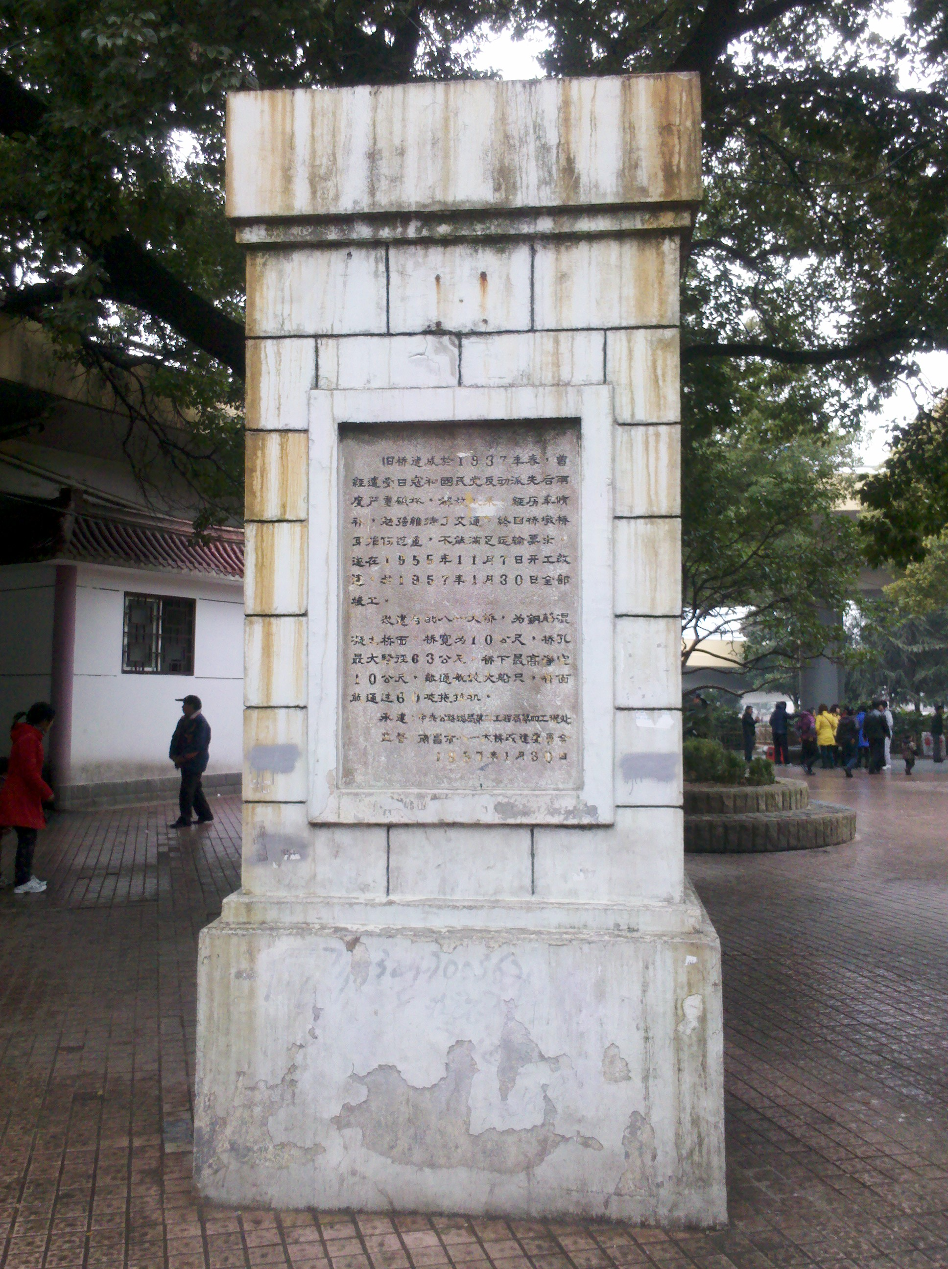 This is the history of shooting in August First bridge east coast bridge bridge.